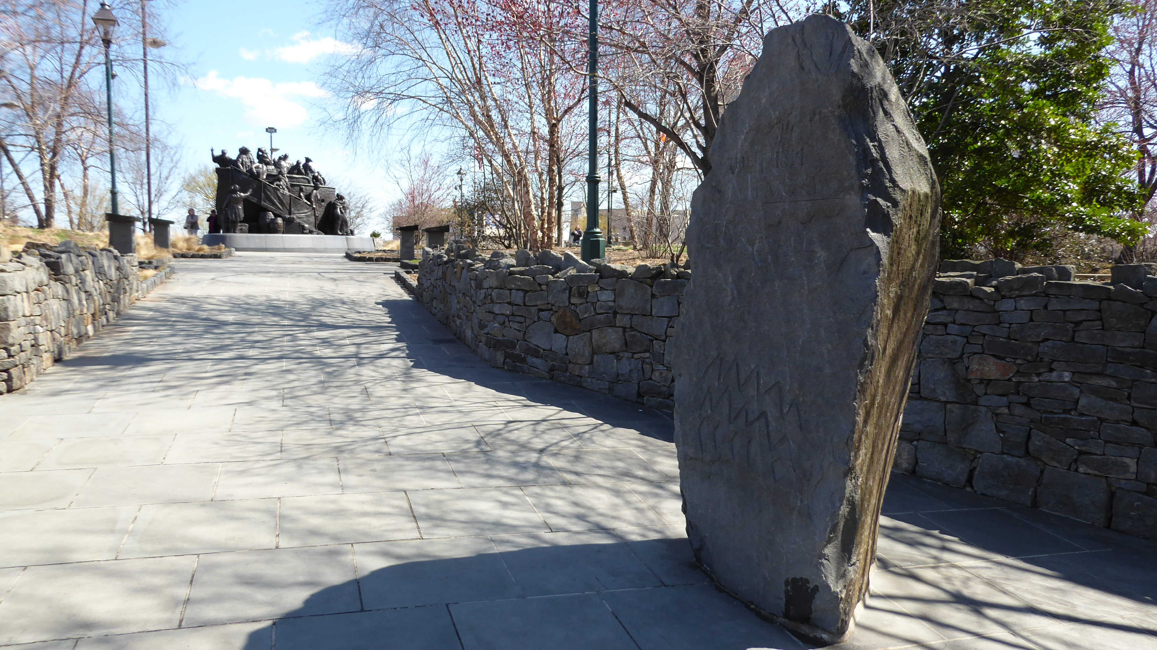 The Irish Memorial is located Philadelphia, Pennsylvania, adjacent to the southeast corner of Front and Chestnut Street. Dedicated in 2002, the centerpiece is a large bronze sculpture by Glenna Goodacre. The memorial plaza includes etched granite plaques that detail the history of the Irish Famine in the 1840s and the resulting wave of Irish immigrants to the United States.